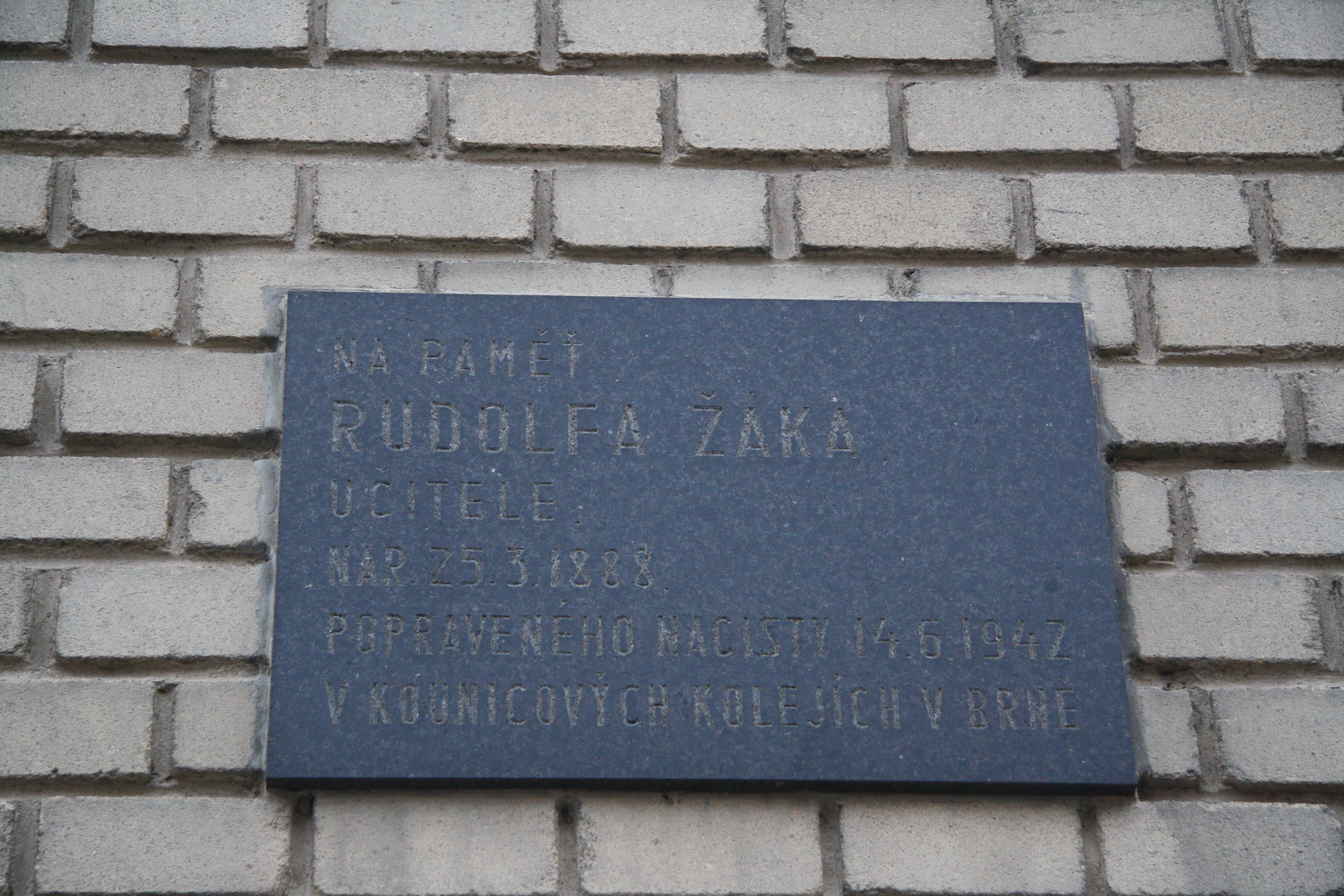 Overview of plaque of Rudolf Žák at Janáčkova 324 at Janáčkova street in Moravské Budějovice, Třebíč District.